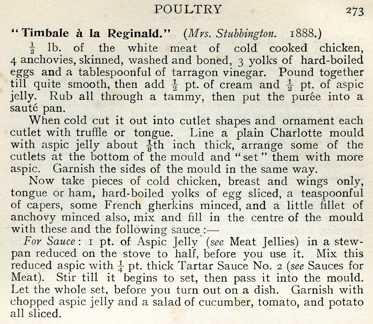 Recipe for "Timbale a la Reginald", from The Cookery Book of Lady Clark of Tillypronie, 1909